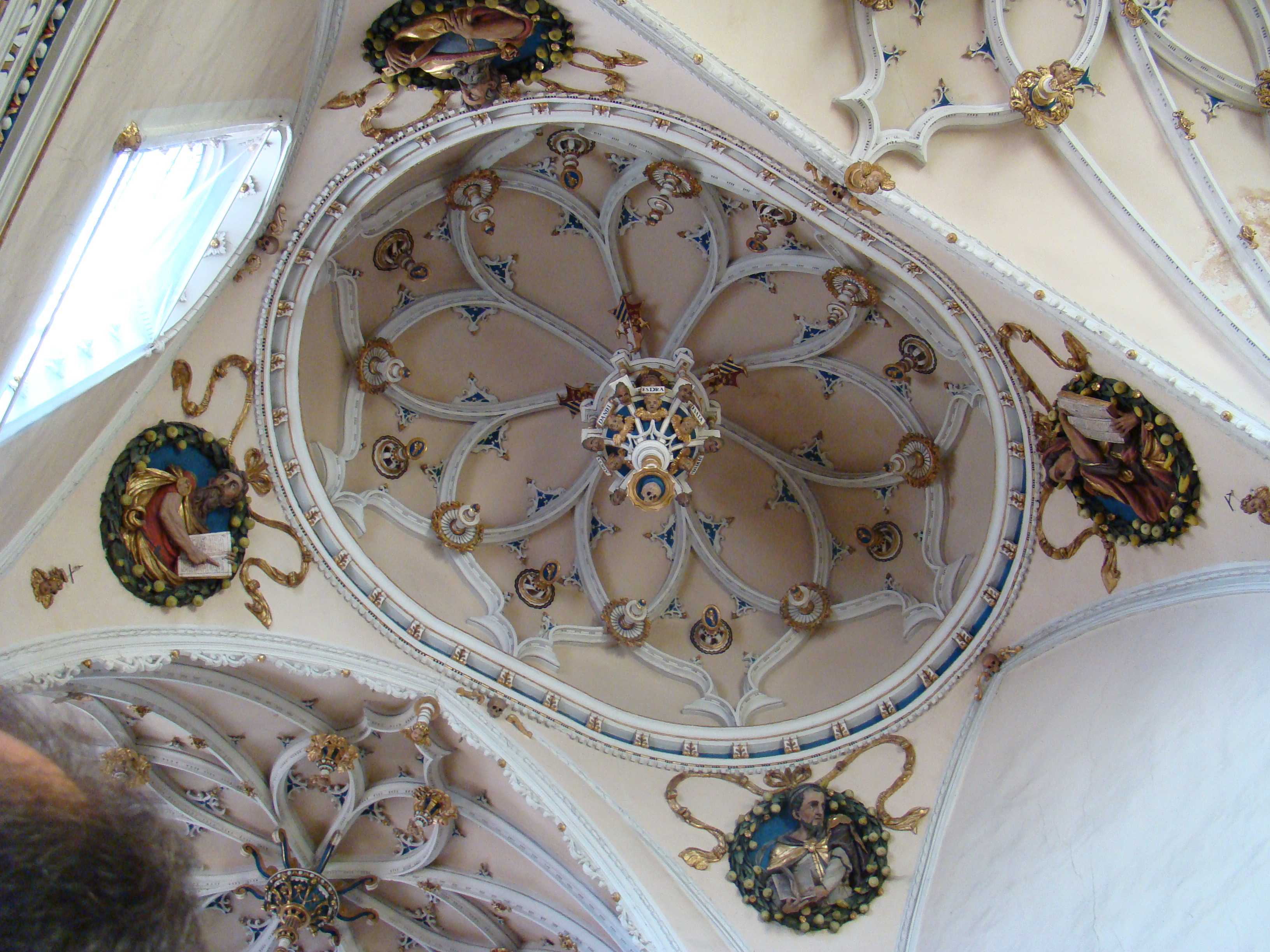 Romanesque basilica of San Isidoro in León, Spain. Oval dome of the library. There are four medallions with the figures of the evangelists on the pendentives.